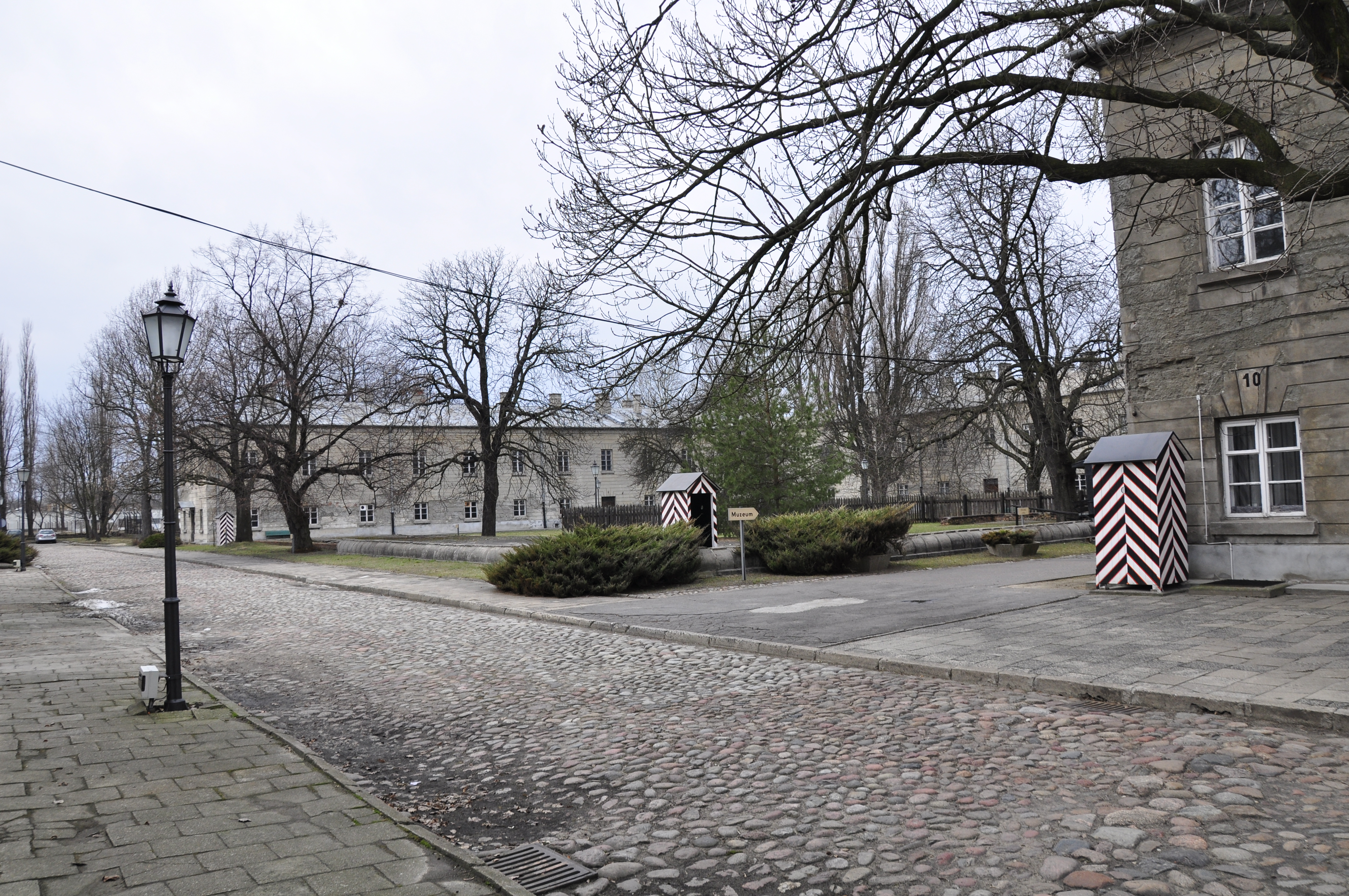 Warsaw, cytadela